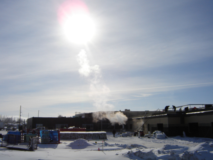 Consruction Site Blairmore Suburban Centre, Blairmore SDA, Saskatoon, Saskatchewan, Canada